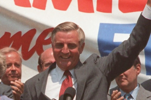 Walter Mondale, seen here on campaign trail in Pittsburgh, Pennsylvania. August, 1984.